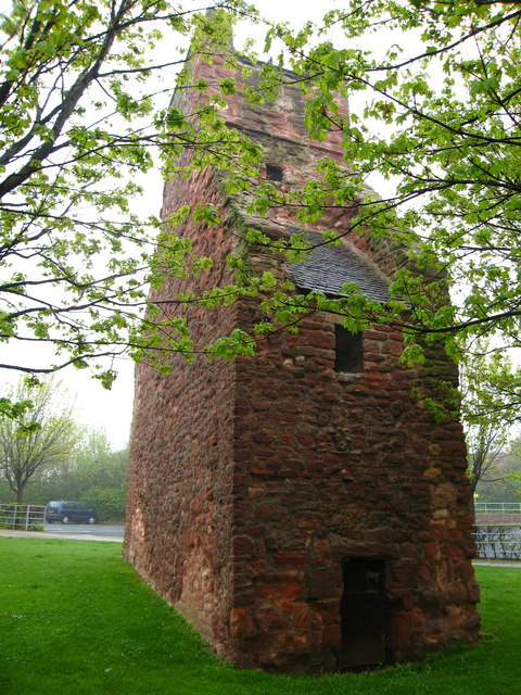 Friar's Croft, Dunbar. Nearby to Dunbars supermarkets is this old doocot which represents the sole remains of Dunbar's Trinitarian priory, established by Christiana de Brus, Countess of Dunbar in the 1240s. Pigeons are still in residence.